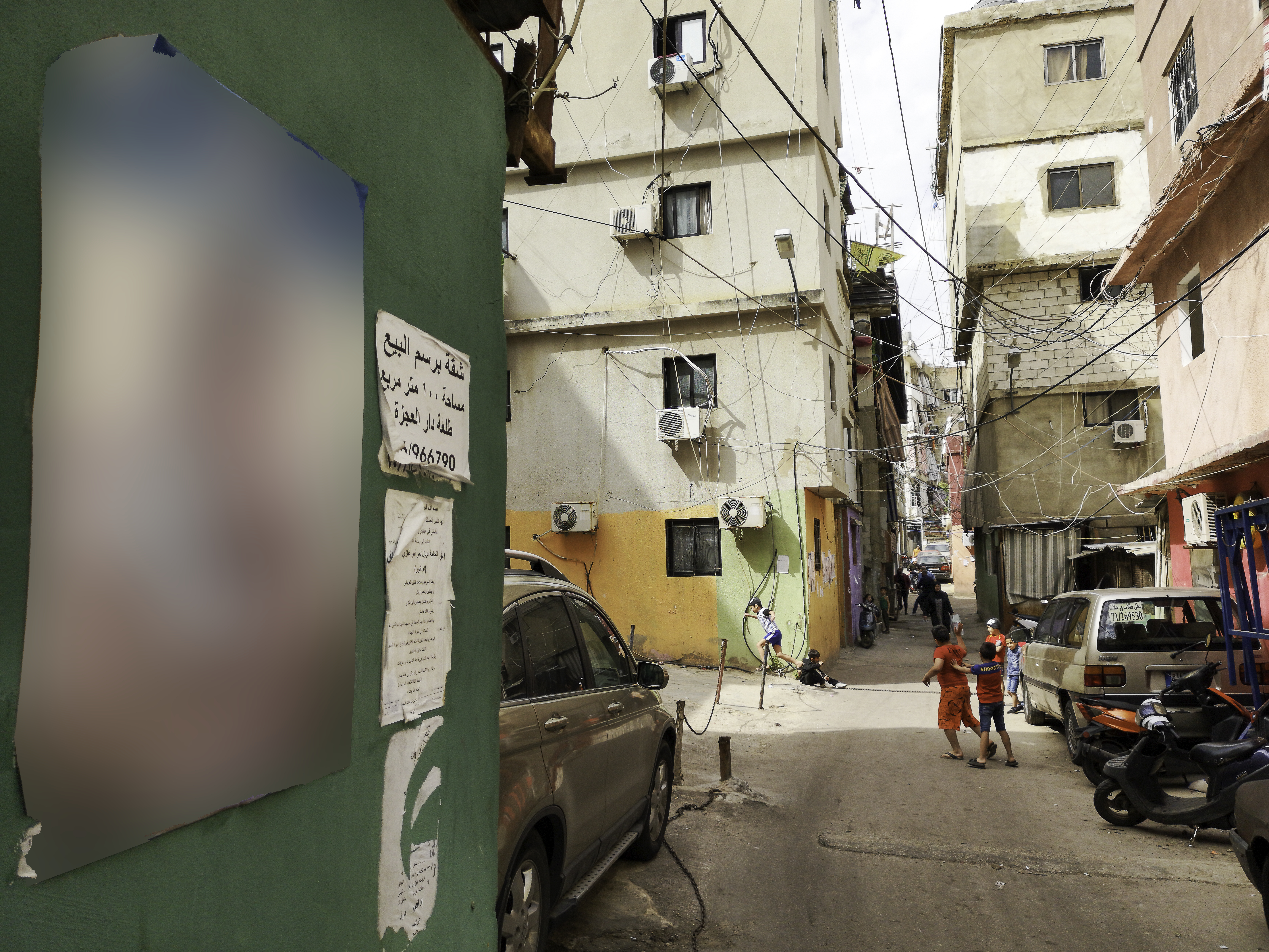 Street view of Shatila refugee camp